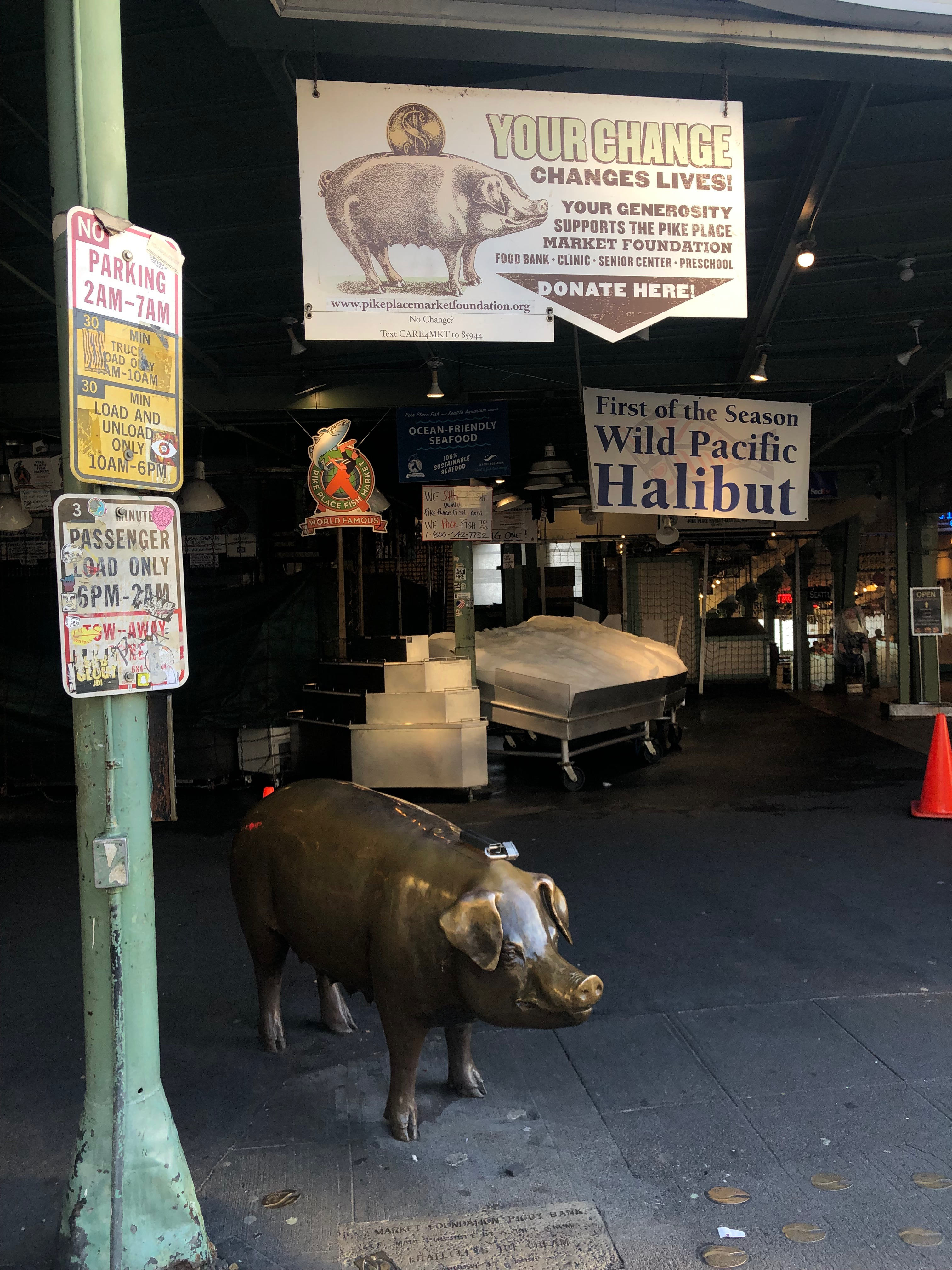 Photo of Pig Statue in Pike Place and the corresponding sign